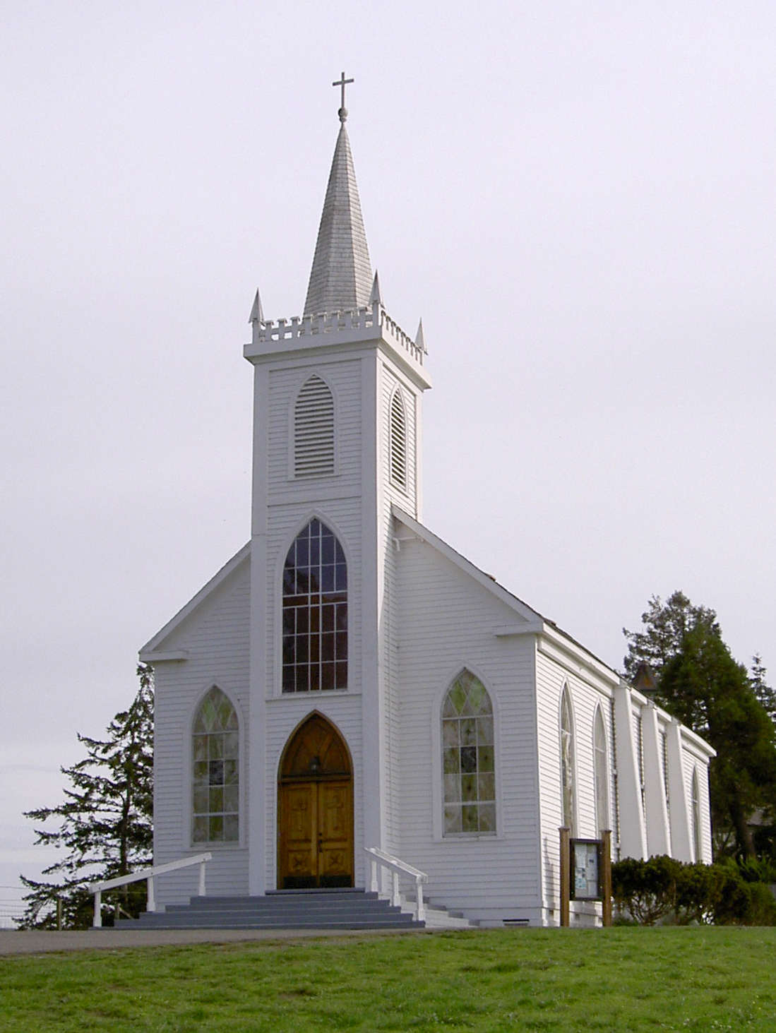 Saint Teresa of Avila Church in Bodega, California